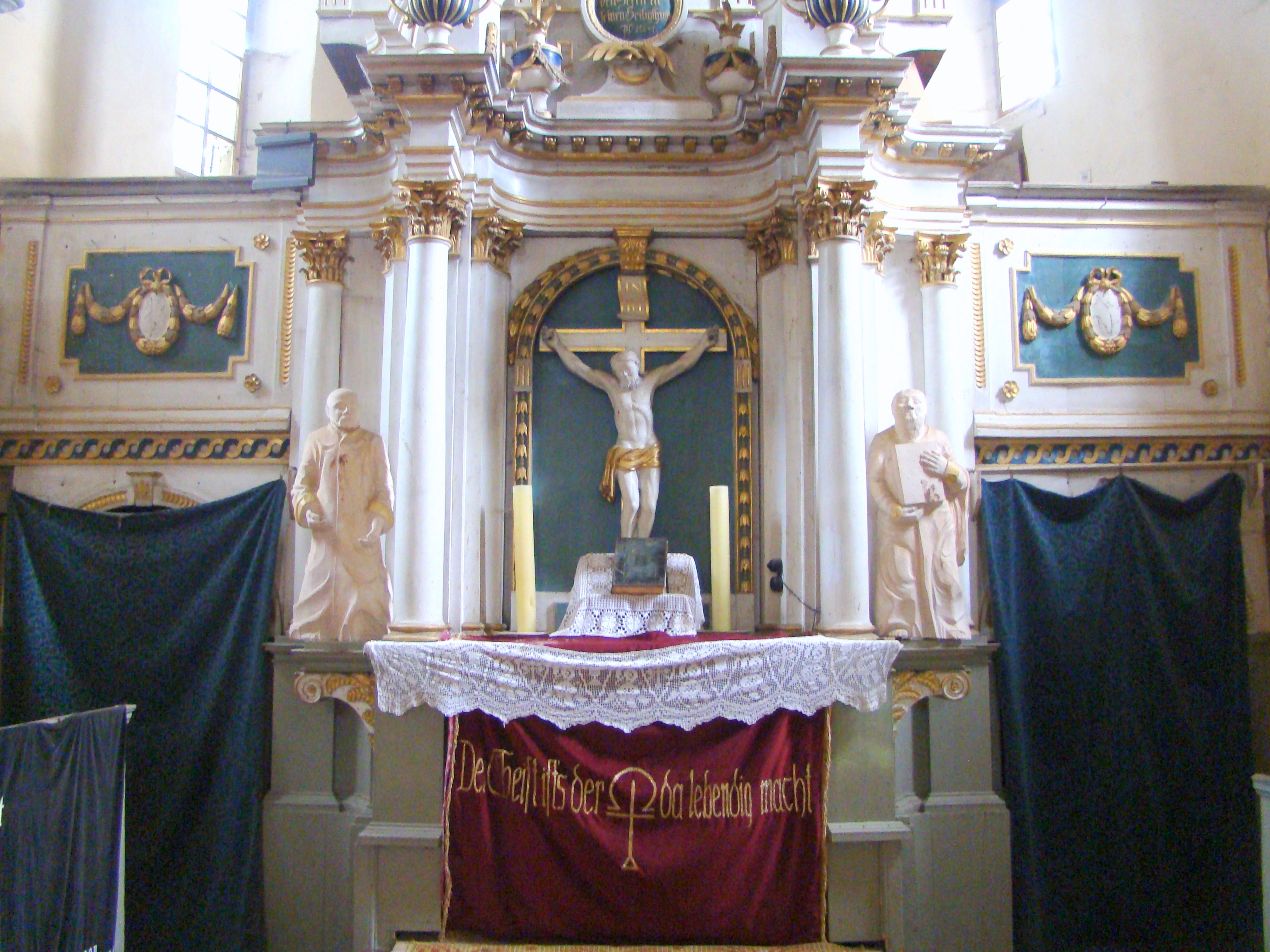 Fortified church in Dacia, Brașov County, Romania